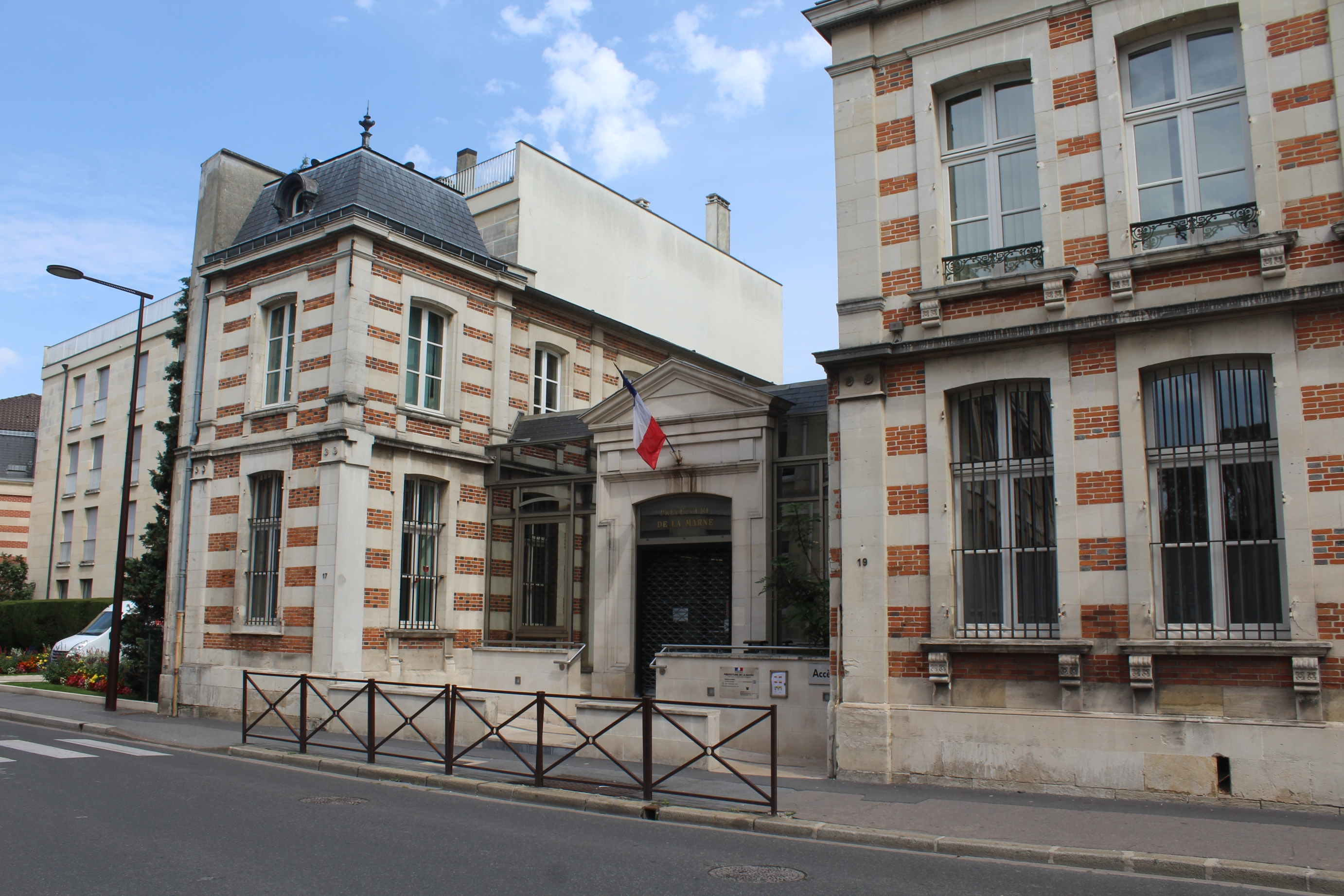 Châlons-en-Champagne, the Prefecture de la Marne